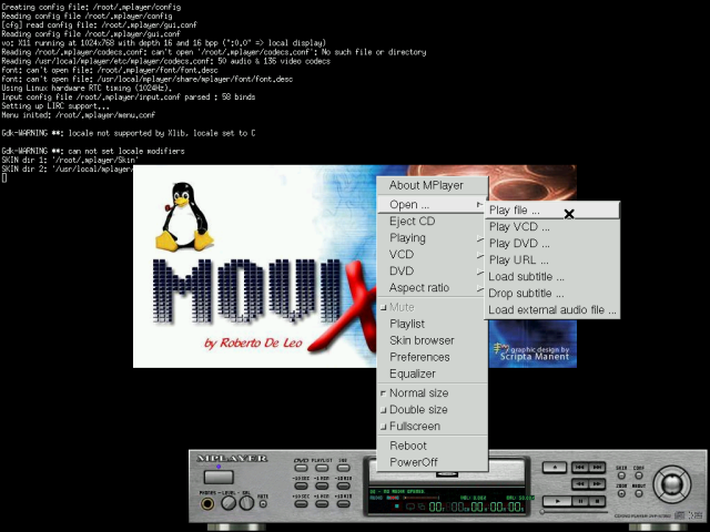 Screenshot of eMovix Linu distribution